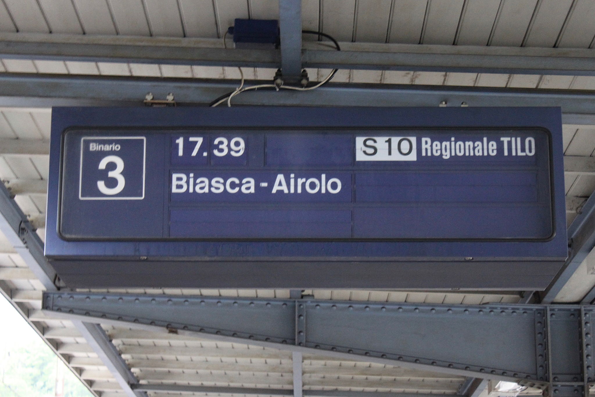 Split-flap display at Bellinzona train station announcing the 17:39 stopping train to Airolo.